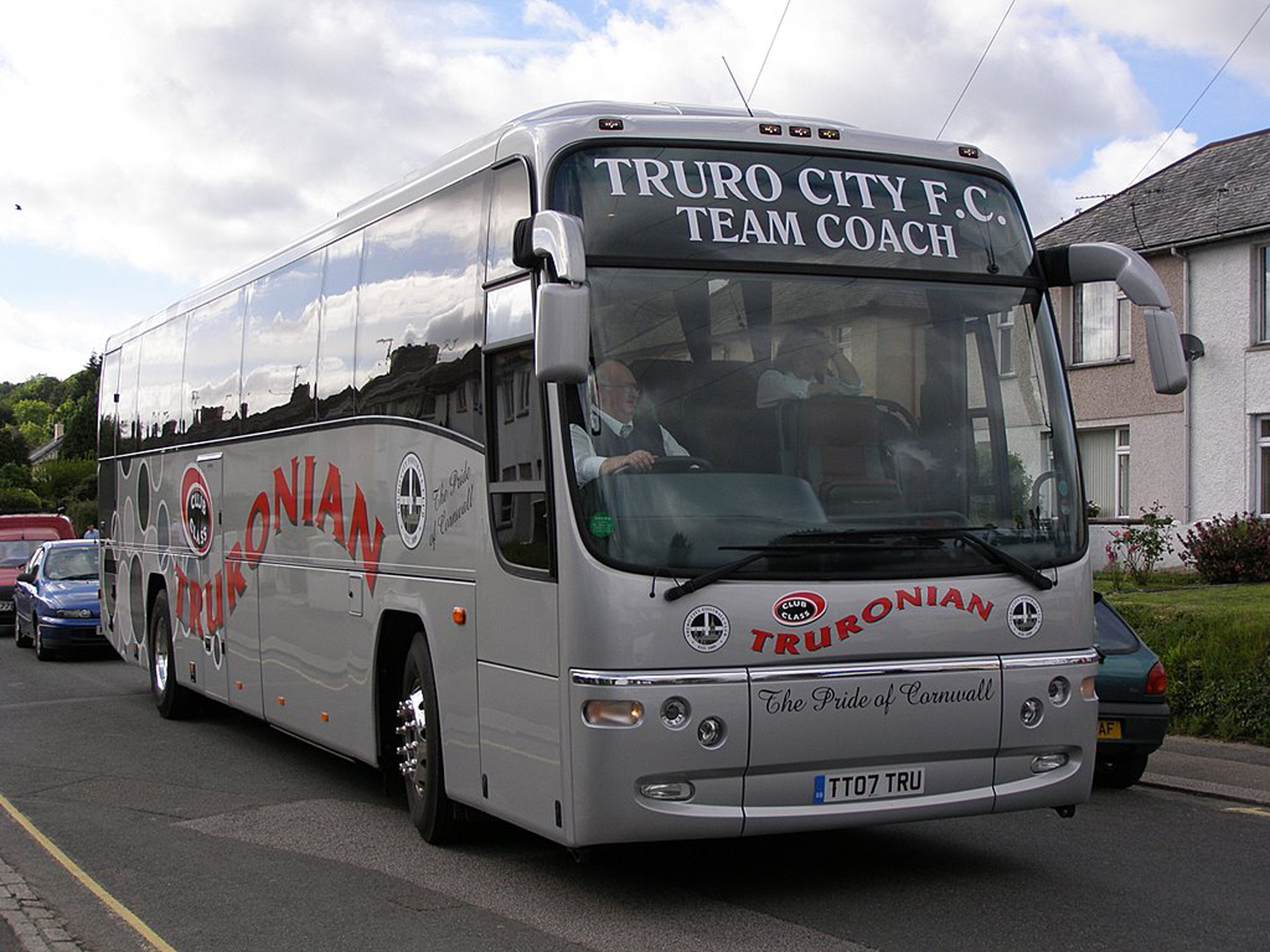 A Truronian coach showing Truro FC team coach decals.